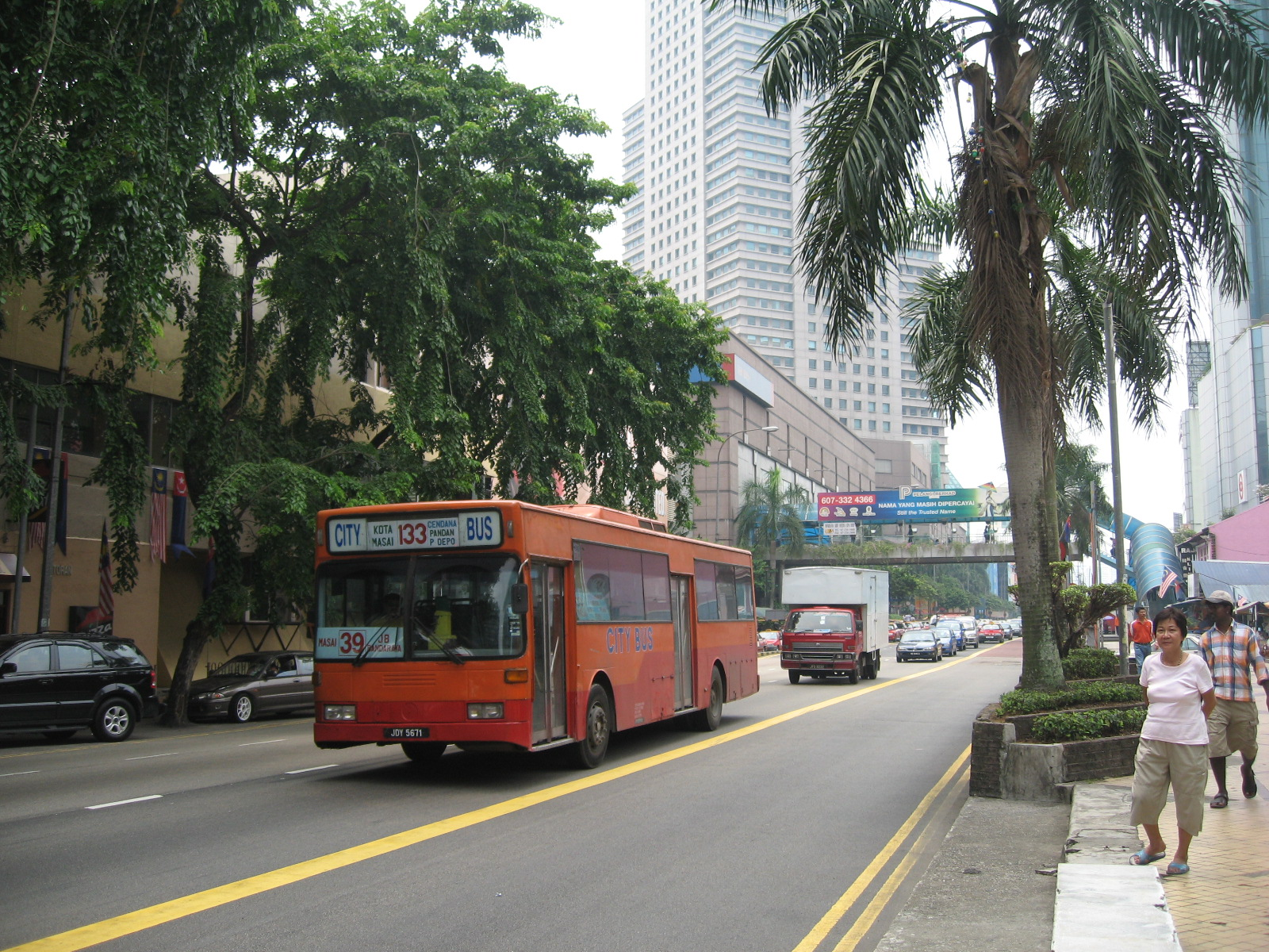 Jalan Wong Ah Fook.